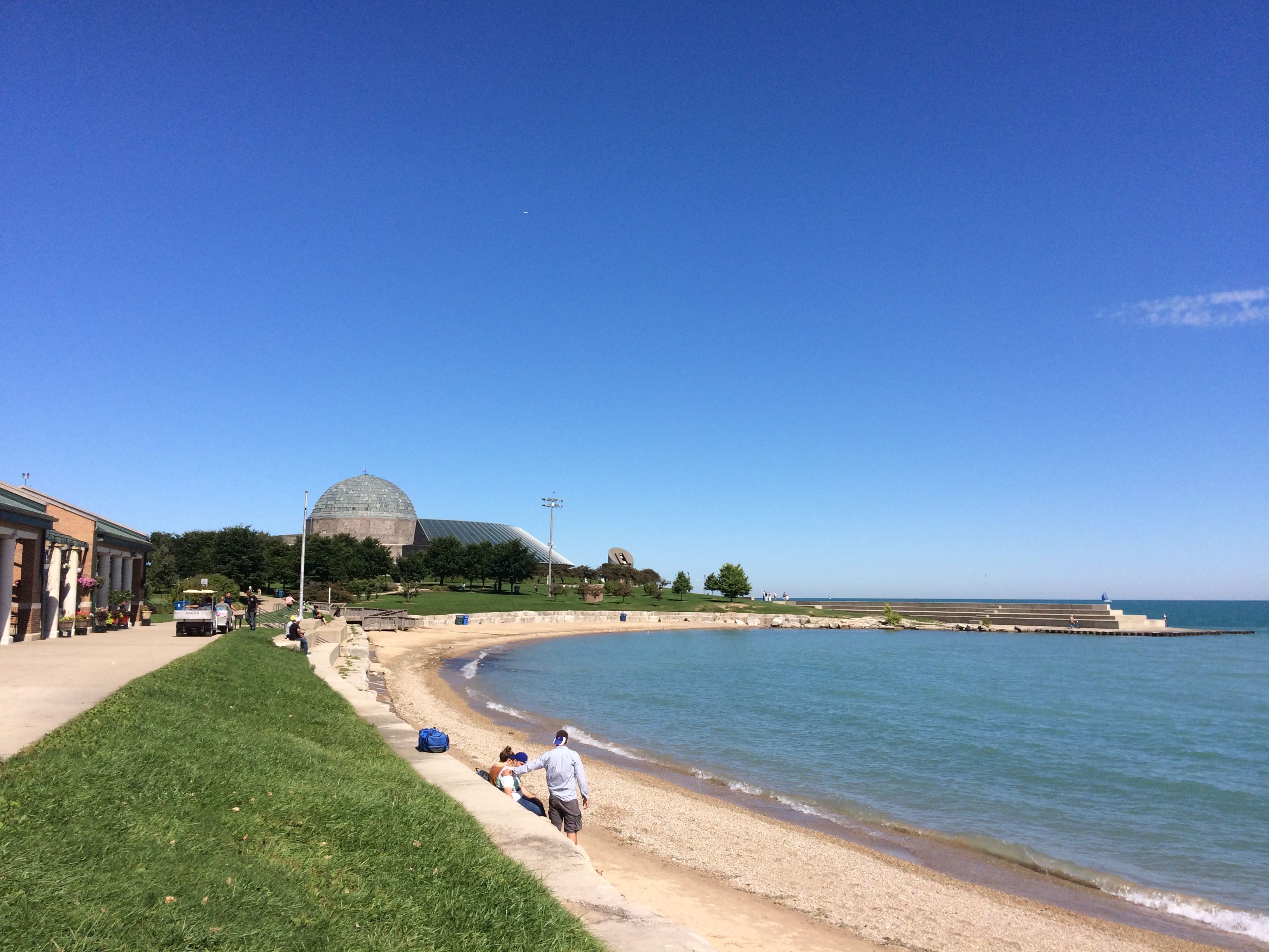 Northerly Island Beach including the Adler Planetarium